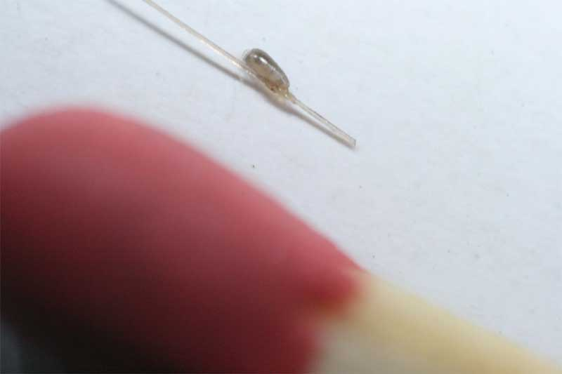 Egg of Pediculus humanus capitis in comparison with a match